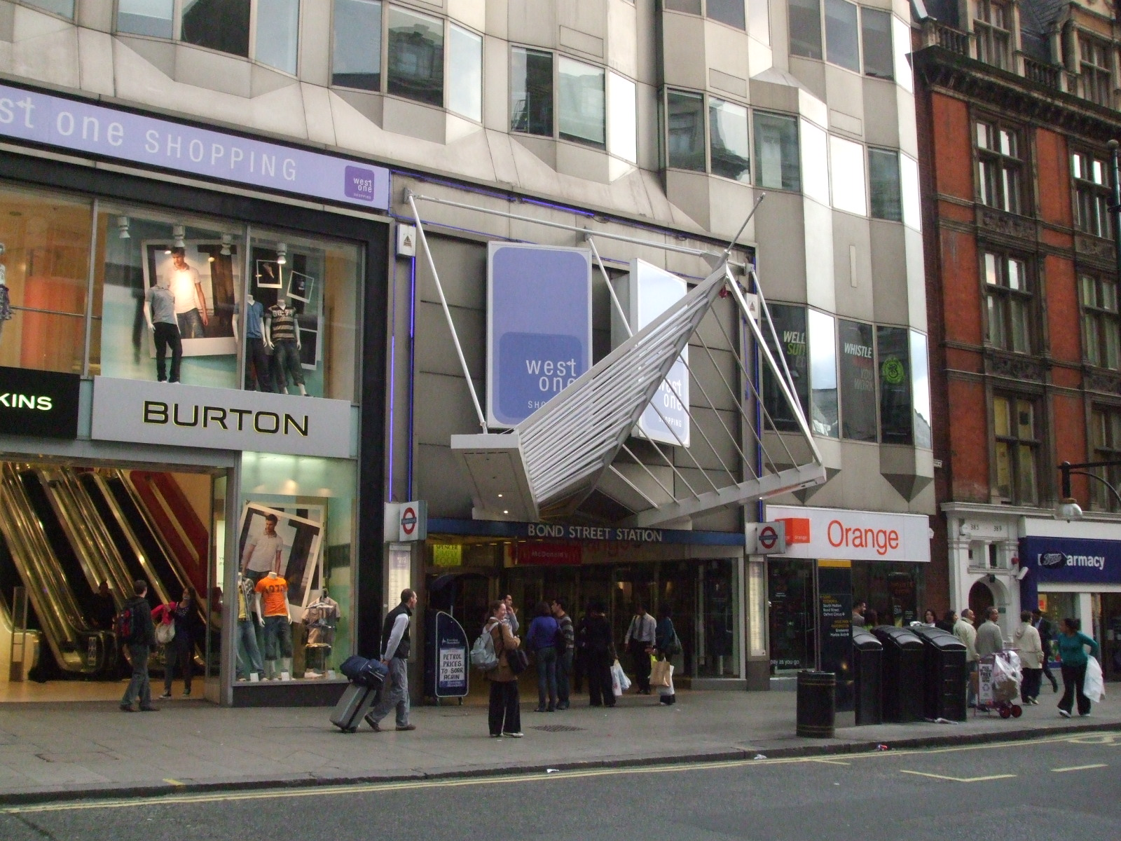 Oxford Street entrance to Bond Street tube station and West One shopping centre